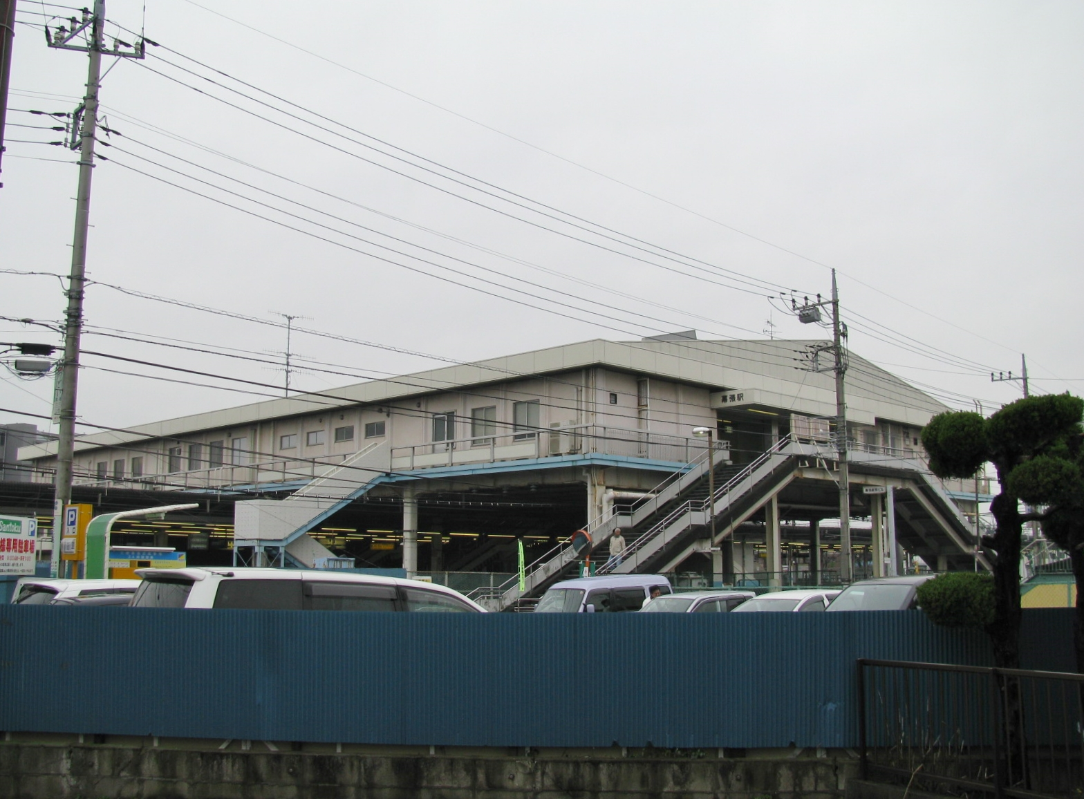 The north side of Makuhari Station on the Chuo-Sobu Line